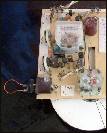 Dipmeter and its main components: removable air-coil (left), variable capacitor (down right) to change frequency and instrument registering change of oscillator energy (top middle). (Draft image until we find a picture of a commercial device.) Photographer: Anton (2005 rp)